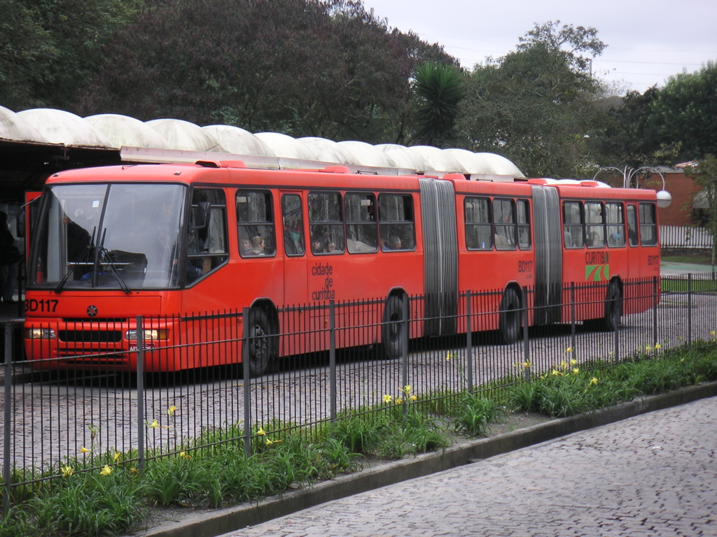 The extra long buses used with their own reserved lanes in Curitiba.